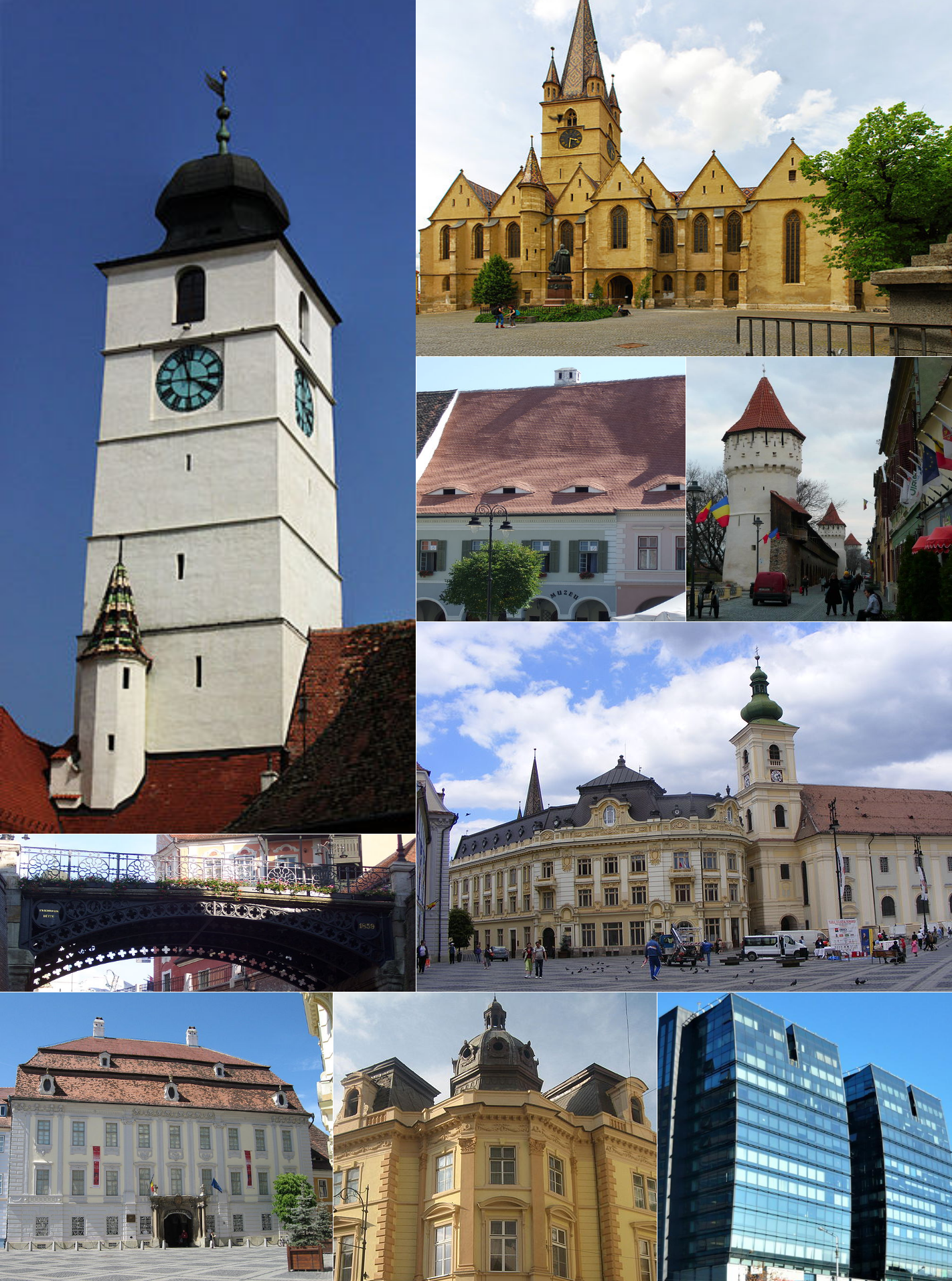 A series of representative images from the city of Sibiu, Transylvania, Romania. The following buildings are shown (left-to-right, top-to-bottom): Council Tower, Lutheran Cathedral, Houses with Sibiu eyes, medieval fortifications, Bridge of Lies, City Hall and Jesuit Church, Brukenthal Palace, a palace with a dome, some modern high-rise buildings.